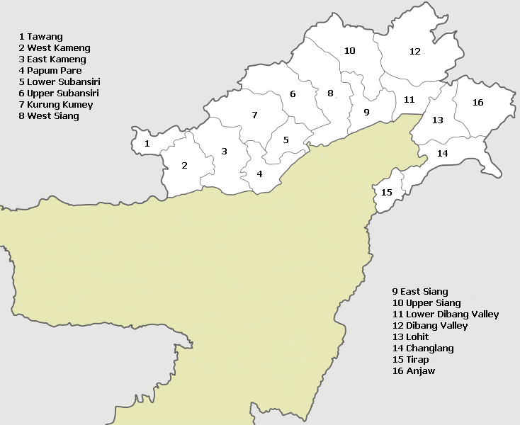 Districts of Arunachal Pradesh